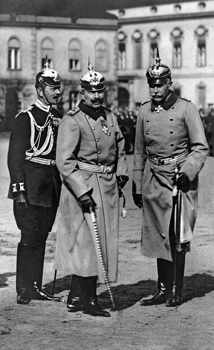 Wilhelm II. (center) with Karl von Friedeburg (left) and Karl von Plettenberg (right)